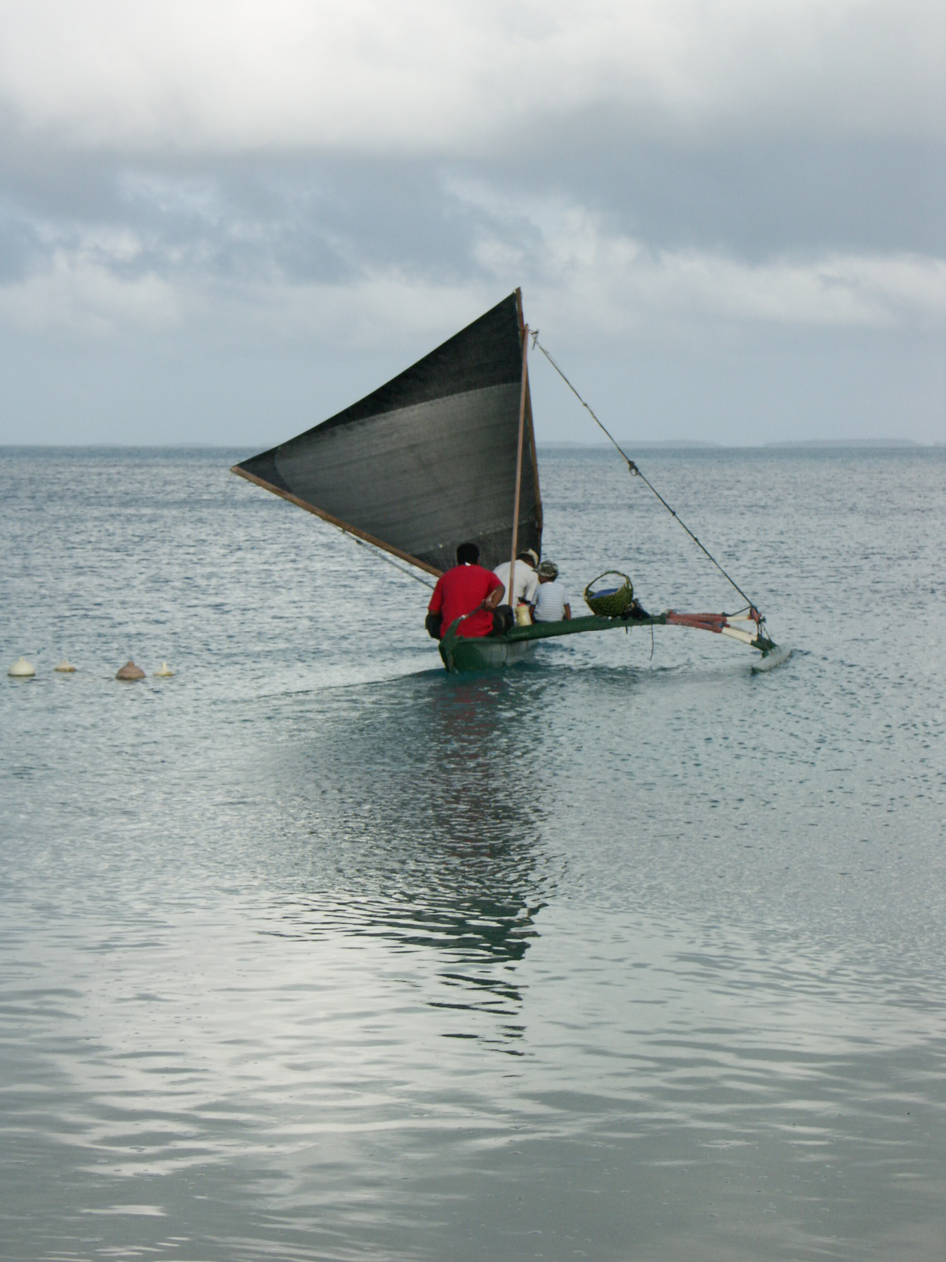 Boat in the Marshall Islands